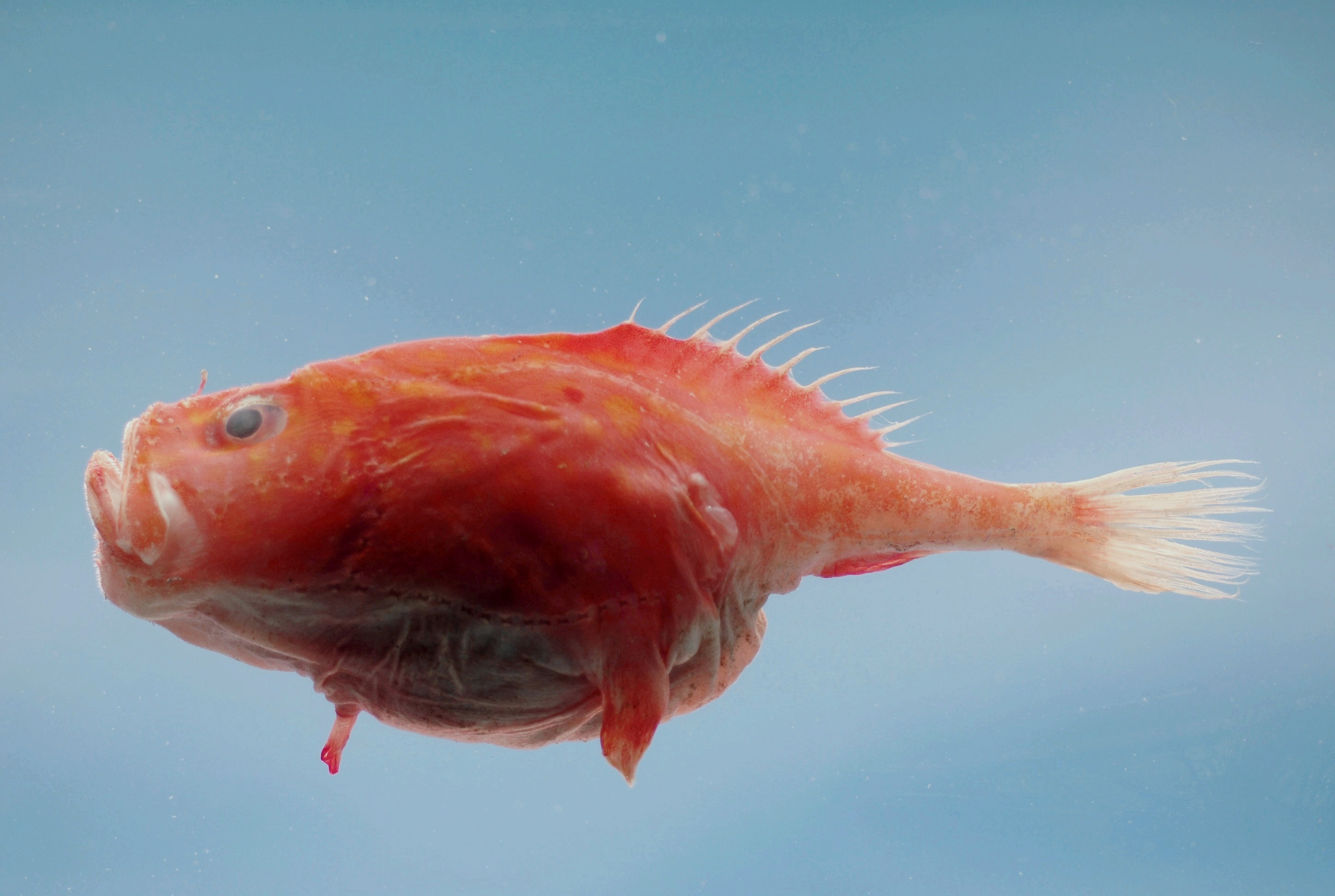 Chaunax suttkusi from the Gulf of Mexico